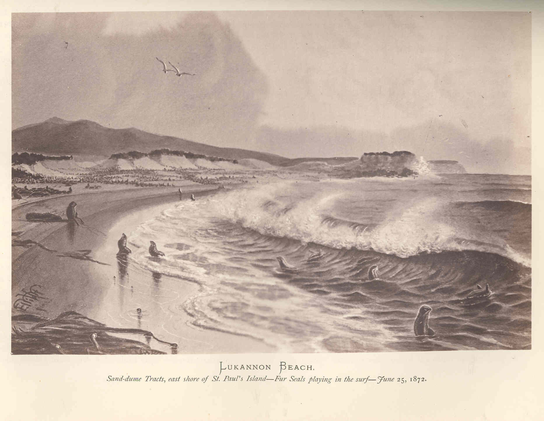 Lukannon Beach. Sand-dume [sic] Tracts, east shore of St. Paul's Island--Fur Seals playing in the surf--July 25, 1872 Subject: Saint Paul Island (Alaska), Northern fur seal Geographic Subject: United States--Alaska--Saint Paul Island Tag: Coasts, Aquatic Mammals